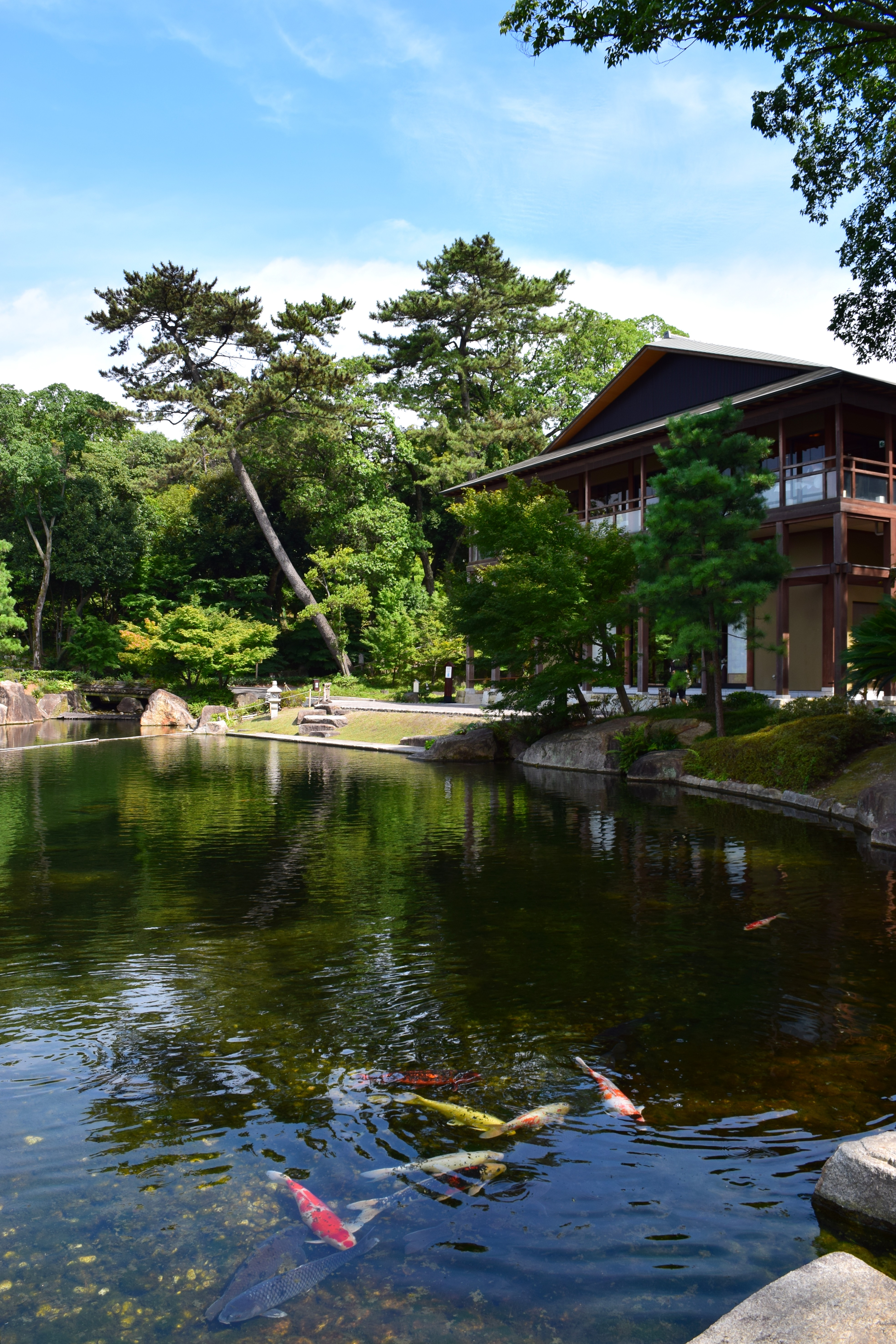 Tokugawa Garden in Nagoya, Japan